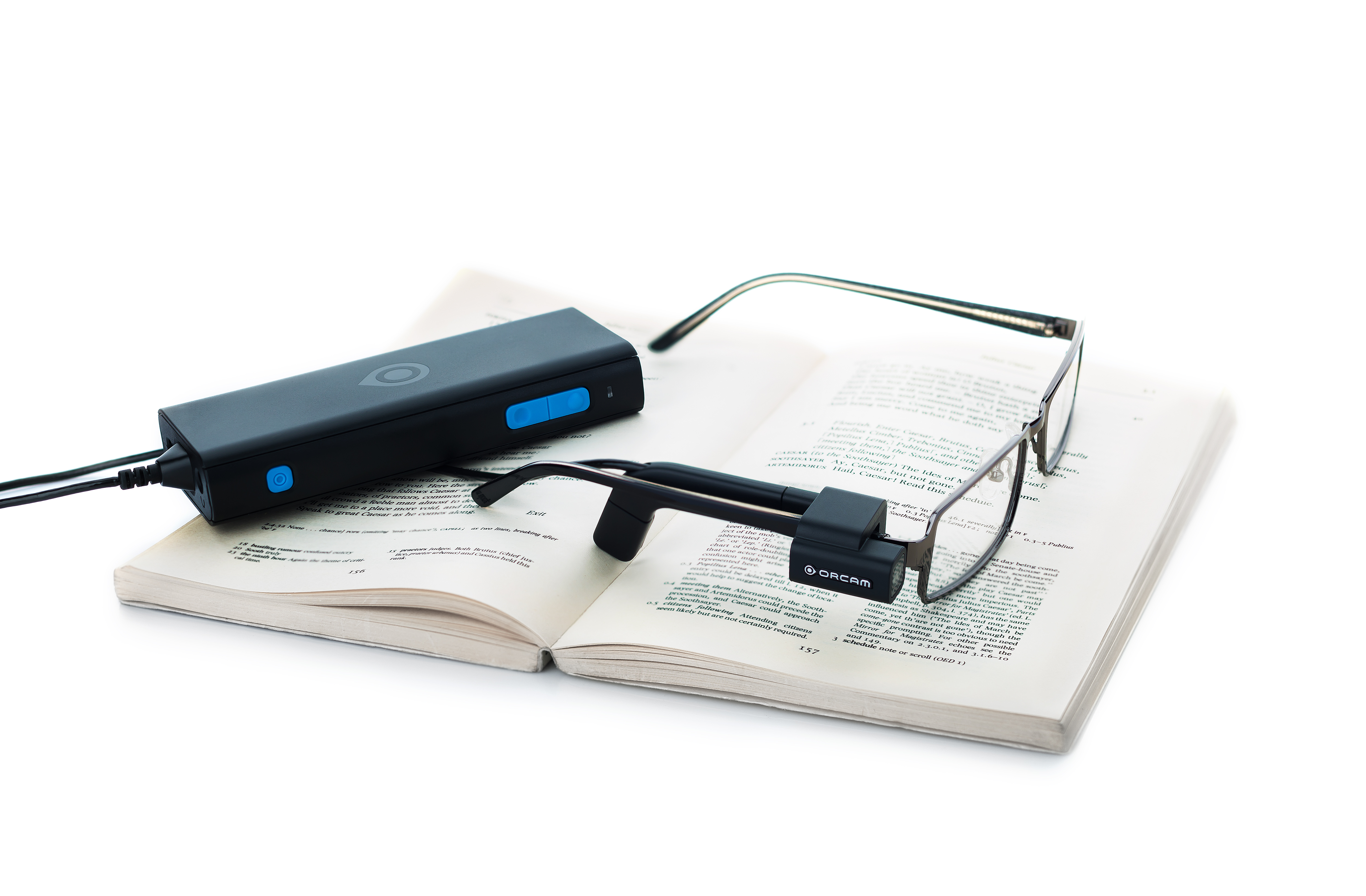 OrCam MyEye 1